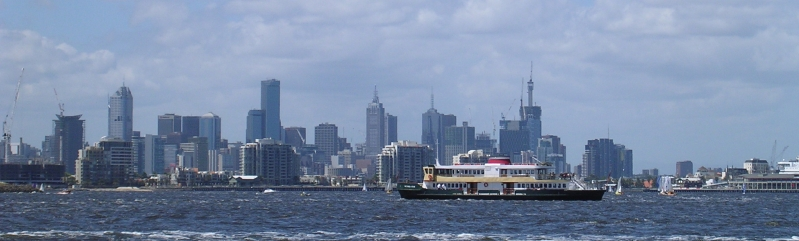 from Image:Melbourne skyline panorama from hobsons bay.jpg taken by user:Biatch